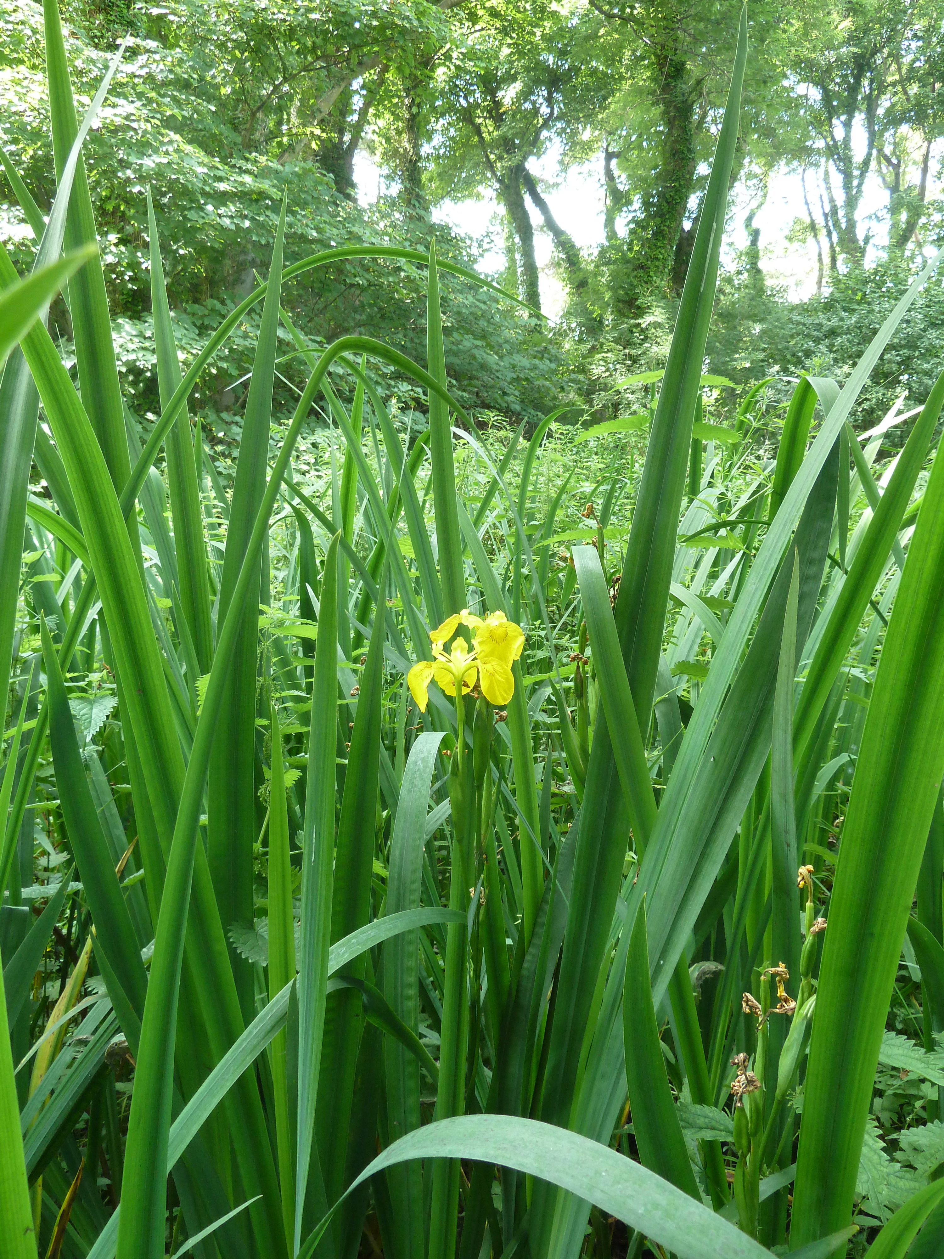 Crawfordsburn, Co. Down, Ireland July 2013 Iris pseudacorus